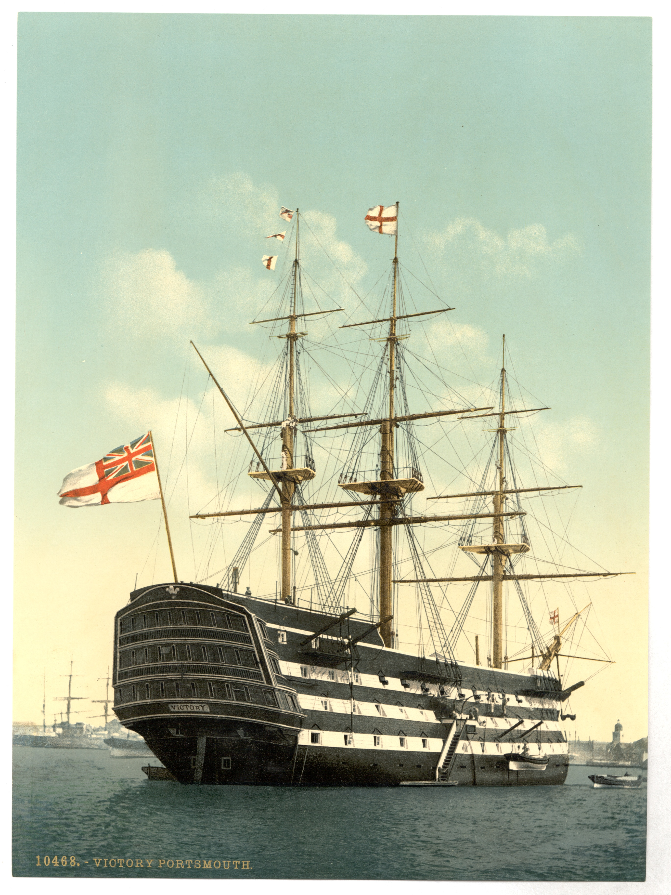 Forms part of: Views of the British Isles, in the Photochrom print collection.; More information about the Photochrom Print Collection is available at Title from the Detroit Publishing Co., Catalogue J-foreign section, Detroit, Mich. : Detroit Publishing Company, 1905.; Print no. "10468".